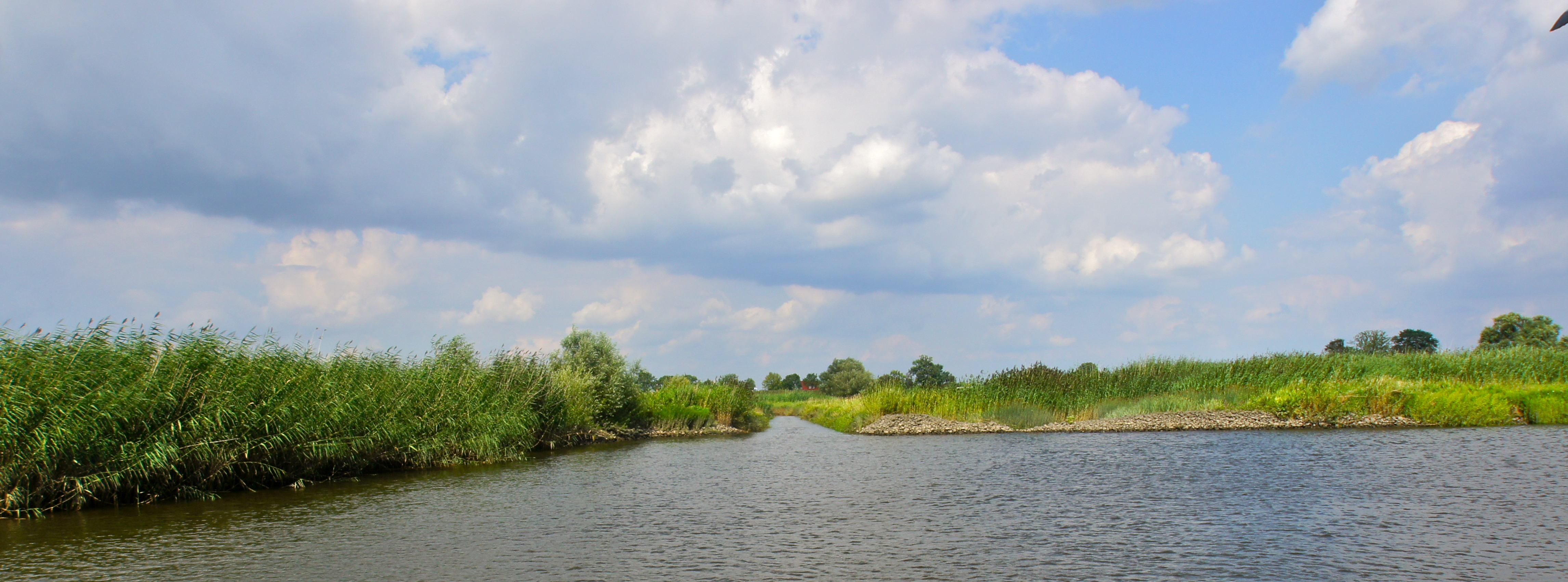 Hamburg (Altengamme), Germany: The “priel” Schlinz fleeds in the Elbe by low tide, and the Elbe fleeds in the Schlinz by high tide